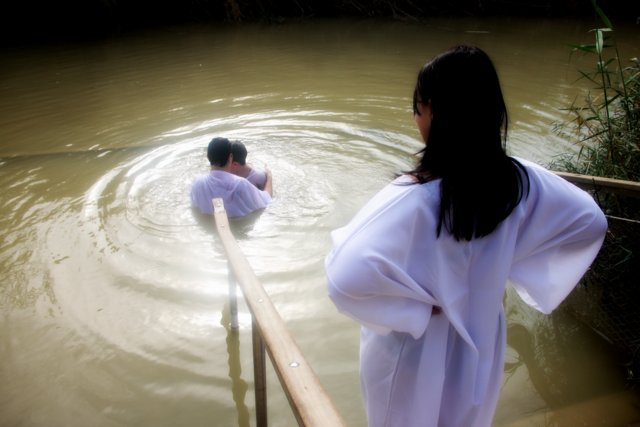 Baptized in the Jordan river in Israel